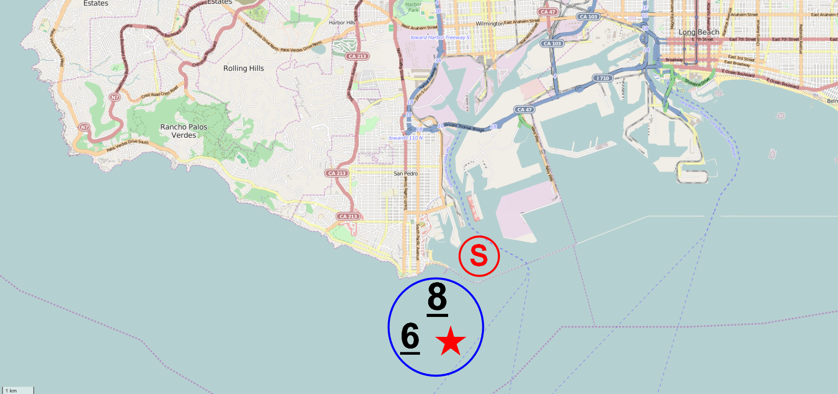 Open street map view of the current map of Los Angeles. Projected are the 1932 Olympic courses of the Snowbird (Red Area) and the Star, 6 Metre and 8 Metre (blue area). This map may be incomplete, and may contain errors. Don't rely solely on it for navigation.